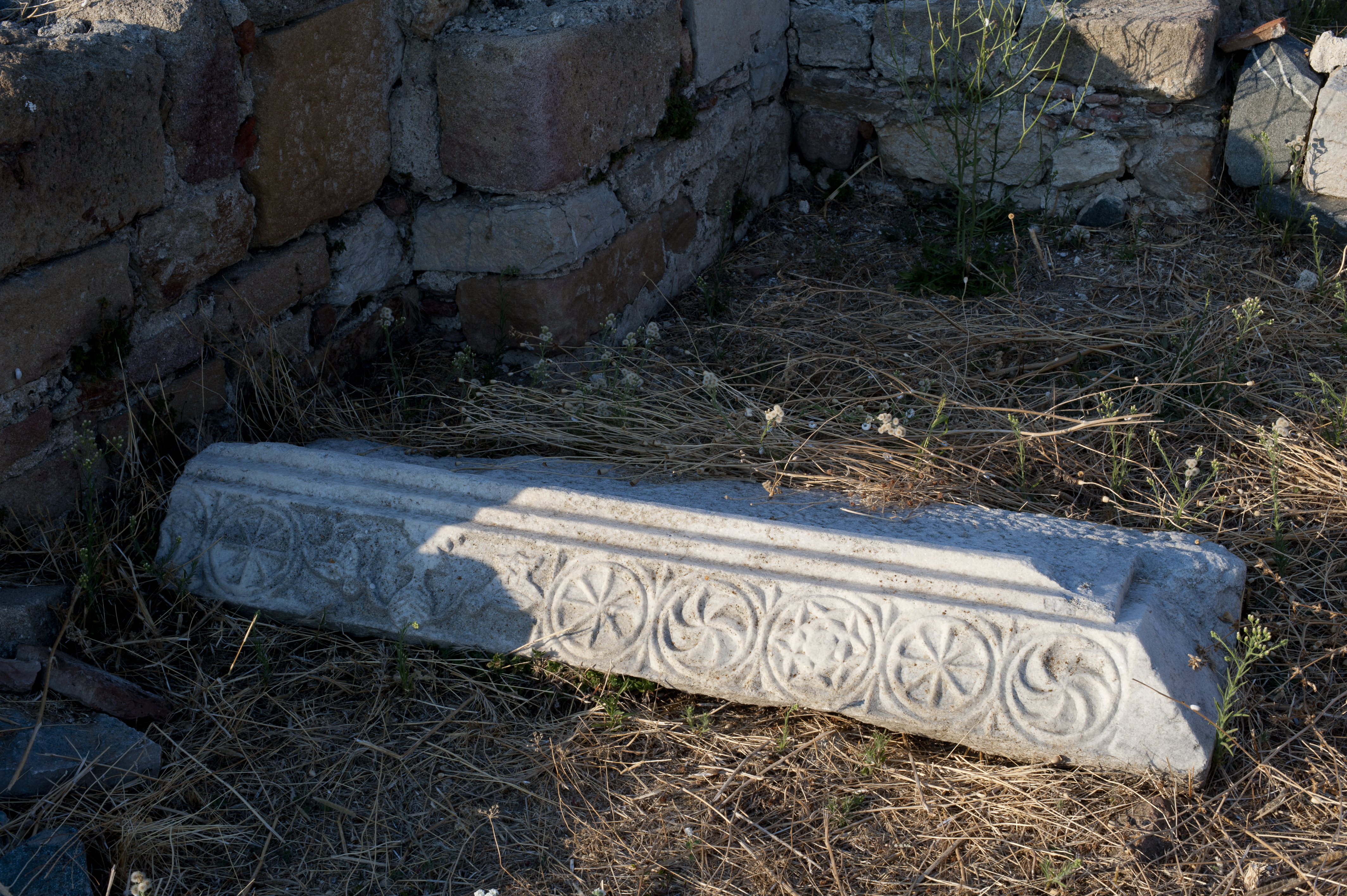 Polystylon Abdera Xanthi Thrace Greece.